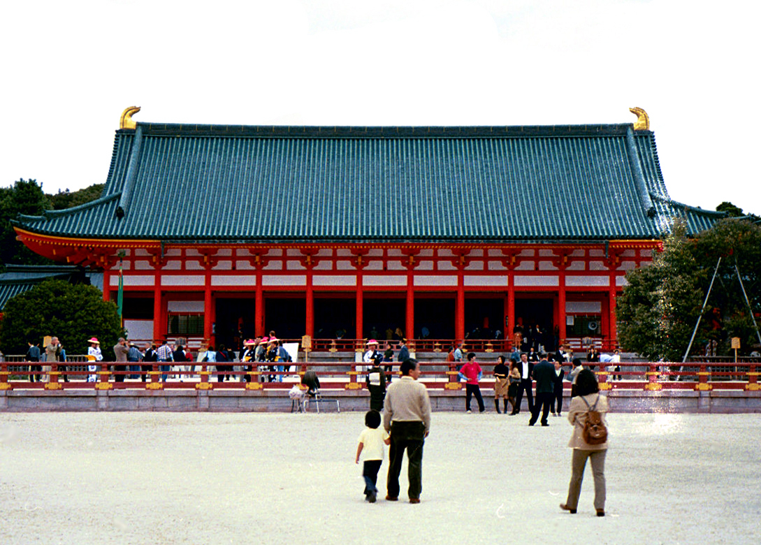 The Daigoku-den is a recreation of the 1177 Hall of State where government business was conducted.